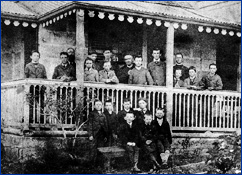 Buildings and students of Saint Ignatius' College, Riverview circa 1880's to 1890's.